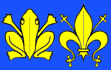 Illustration of the hypothesis that the heraldic "fleur-de-lys" originated from a stylized drawing of a frog instead of (or in addition to) a stylized drawing of a lily...